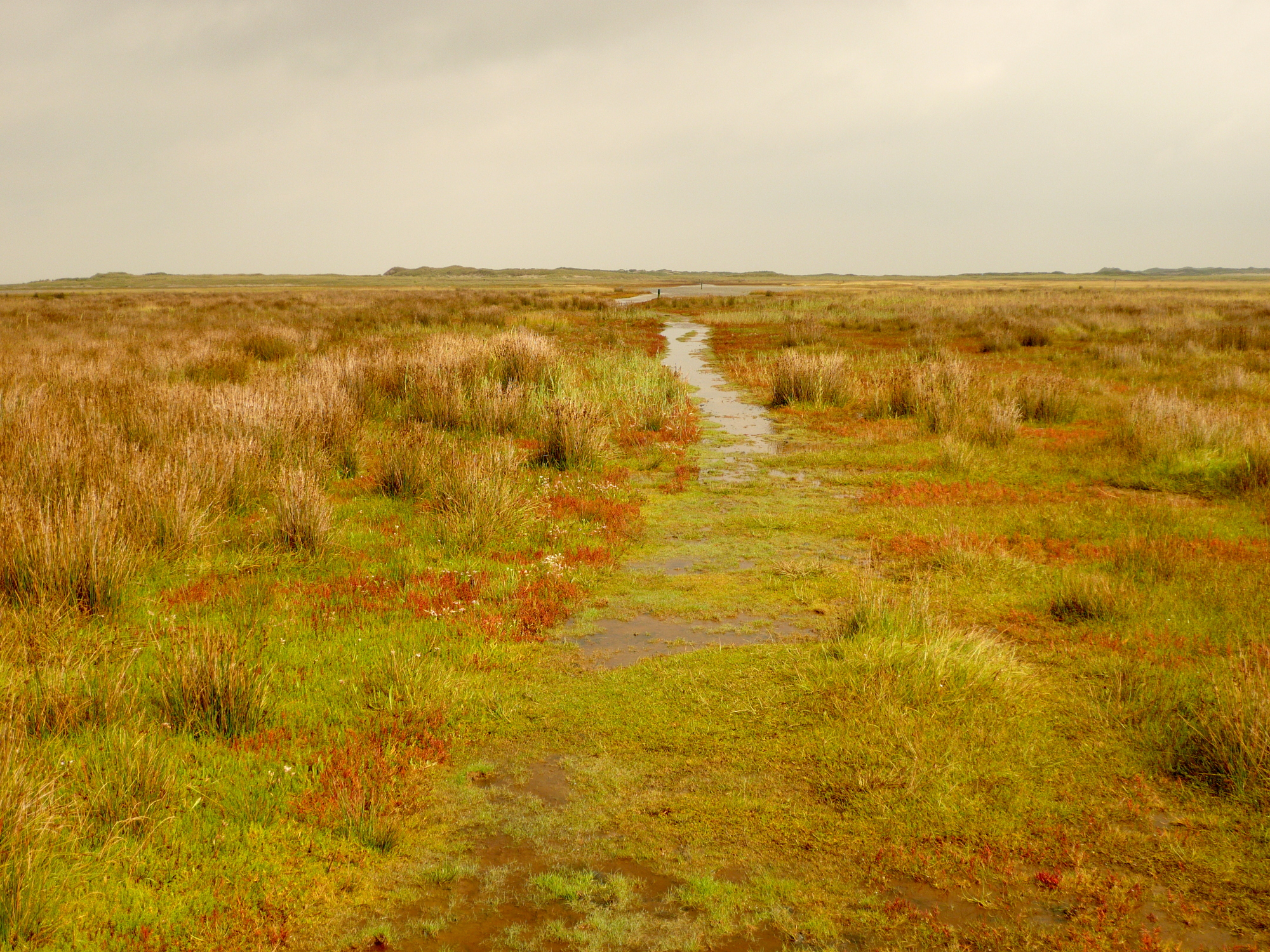 Area Ostplate on island of Spiegeroog